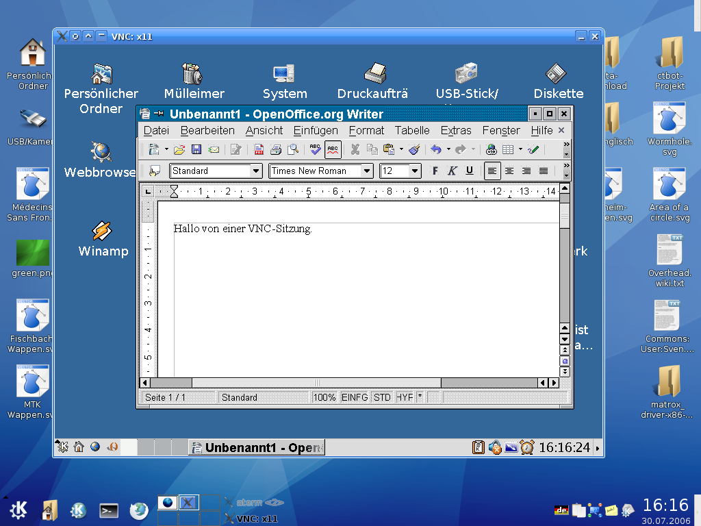 This (german) screenshot shows: KDE 3.5 (screen depth 1024*786) the RealVNC-client connected to the Xvnc-server (it's not really visible because it's working "in the background") which is showing another KDE-Session with running Writer 2. All shown software (probably except for the Winamp icon) is free (licenced as GPL)